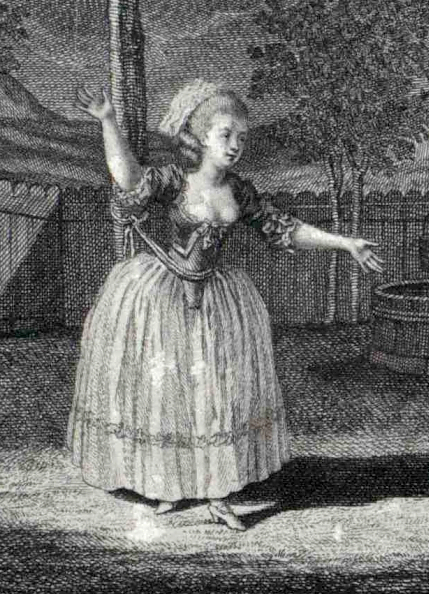 Scene (detail) of „Die Bergknappen“ composed by Ignaz Umlauf, with Caterina Cavalieri as Sophie. Information on this engraving in „Litteratur- und Theater-Zeitung“, Berlin, 24 April 1779, page 266.